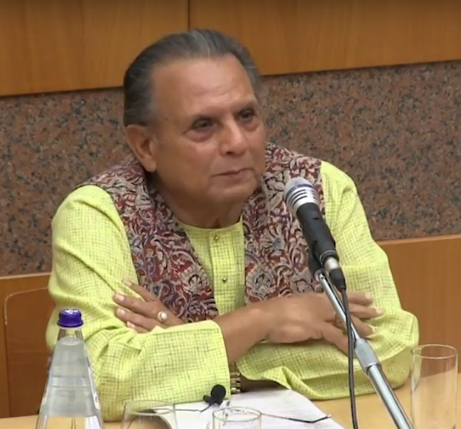 Indian classicist and theatre theorist Bharat Gupt at the Analogio Theater Festival 2019 in Athens, Greece